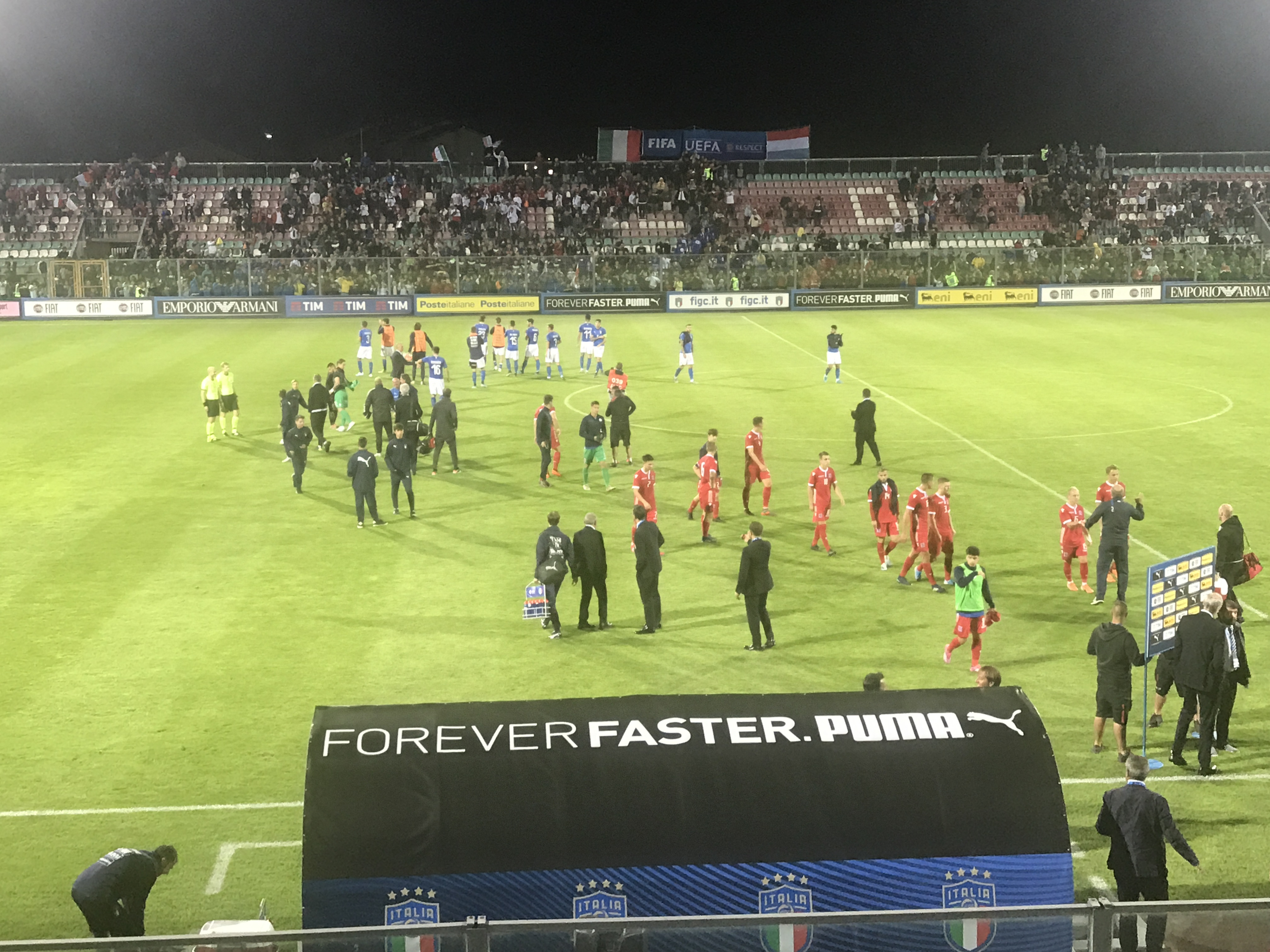 Teofilo Patini stadium at the end of the match played by the Italian national football team U-21 on 10 September 2019 against the Luxembourg team, the latter suffered 5 goals from the opponent. Castel di Sangro (Italy)